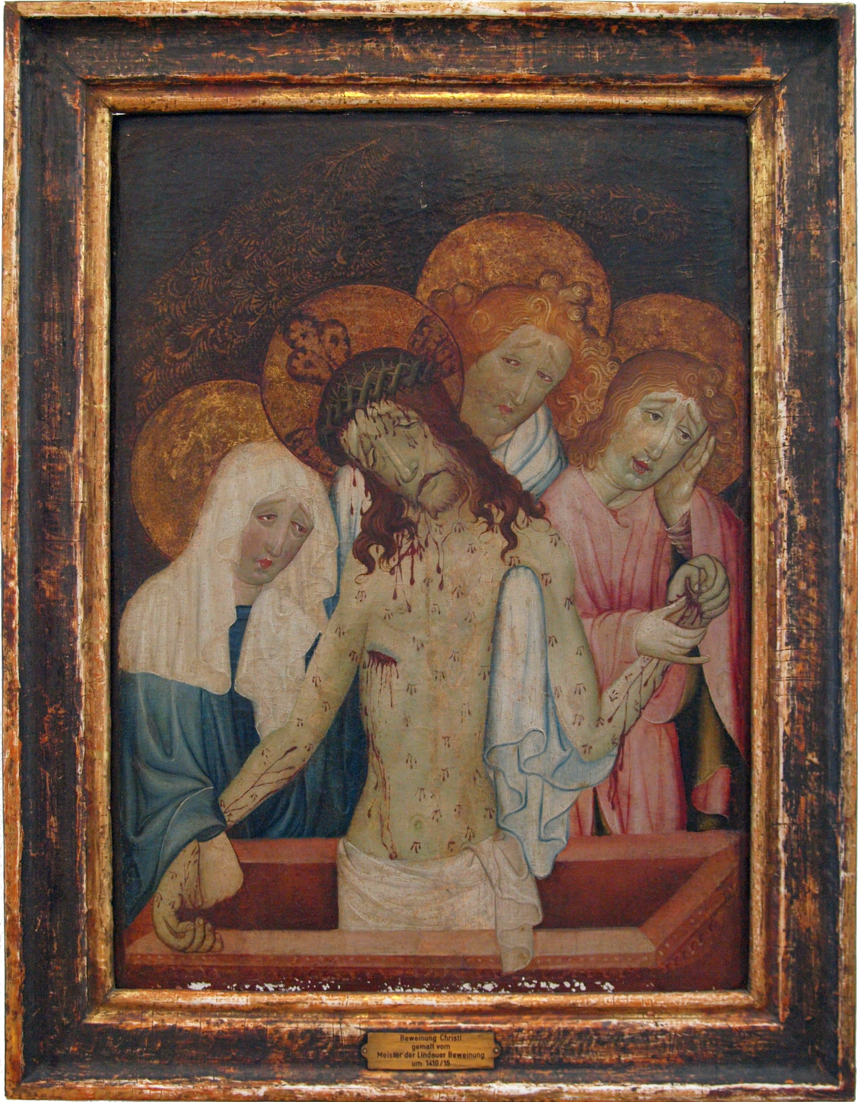 Other names: The lamentation over the dead Christ, Schmerzensmann or Engelpietà